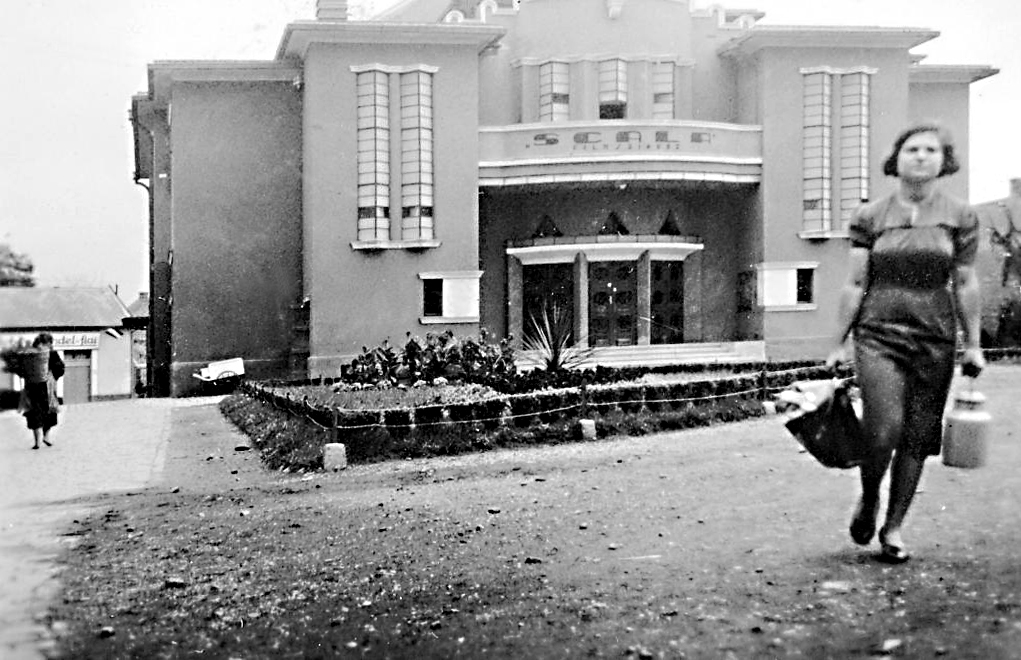 Archive FORTEPAN, year of origin 1942 picture №08118. Mukachevo Scala cinema in the town center